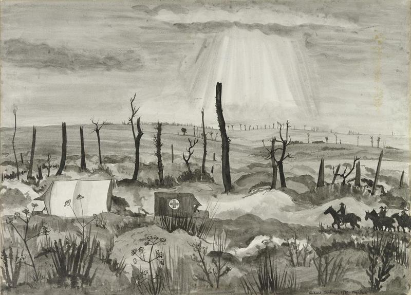 Village of Pozieres, Somme, France image: a battle-scarred landscape with a road running horizontally across the composition in the foreground. There are two trucks, one marked with a red cross, and four soldiers on horseback moving along the road. Bomb damaged bare tree stumps line the side of the road and the landscape in the background is similarly bare.